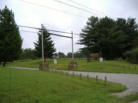 The entrance to Tunnel Mill Scout Reservation, near Charlestown, Indiana